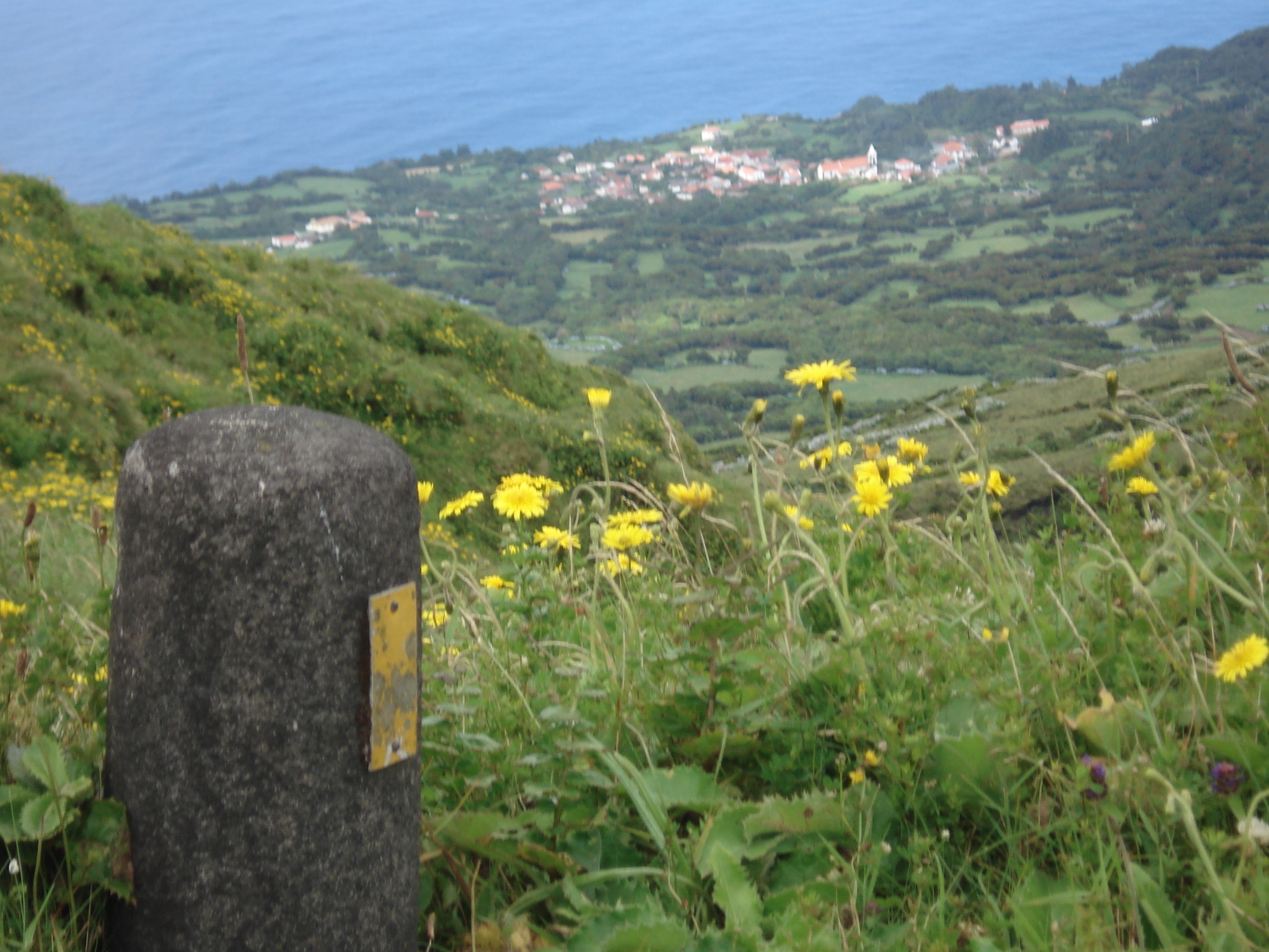 Looking from a distance at the village of Urzelina, in the parish of Velas, island of São Jorge, Azores